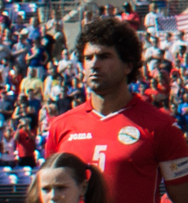 CONCACAF Quarter-Finals (USA vs Cuba) - Baltimore, MD (July 2015) Jorge Luís Clavelo